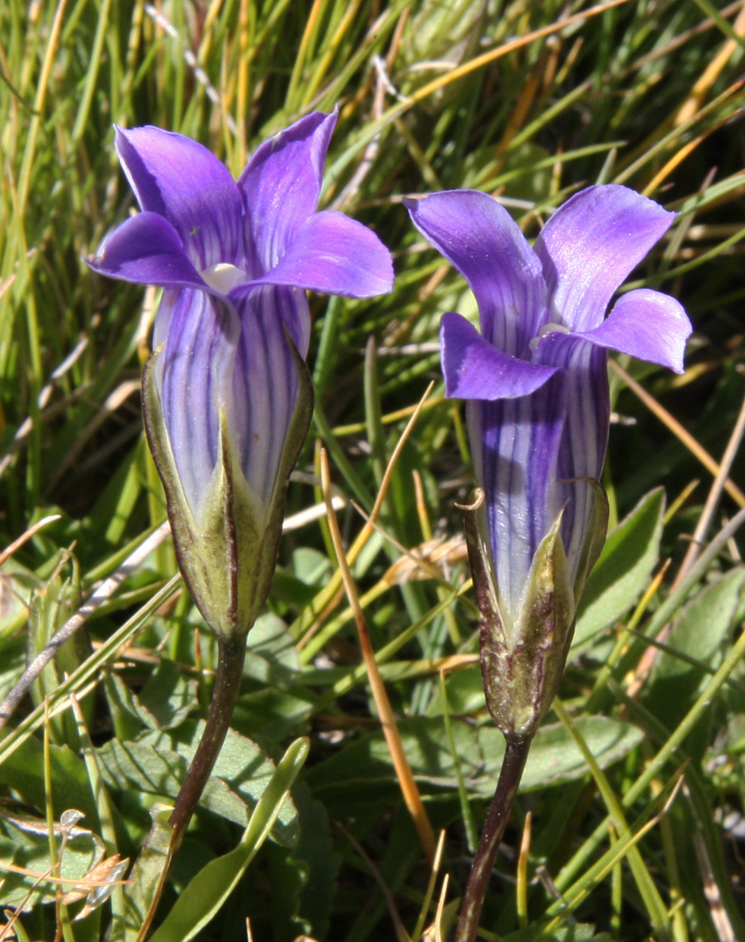 Sierra fringed gentian (Gentianopsis holopetala), closeup of two striped, purple, 4-lobed flowers. At 10,500 ft (3,200 m) in meadow below Dorothy Lake and Wheeler Crest, John Muir Wilderness, Sierra Nevada mountains, California USA.